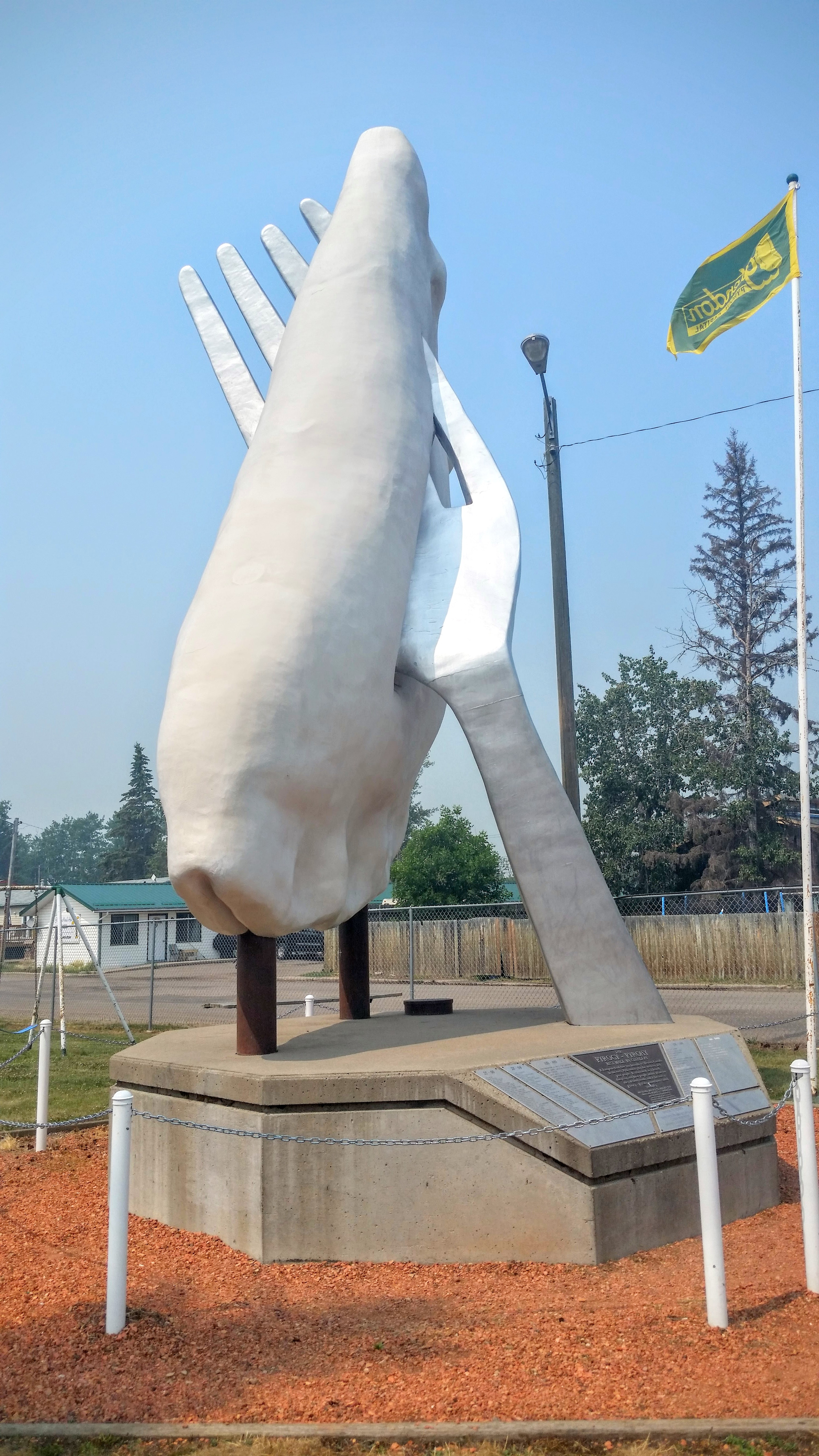 World's Largest Perogy. Glendon, Alberta, Canada. 27 ft. tall (8.2296 meters), built in 1991.